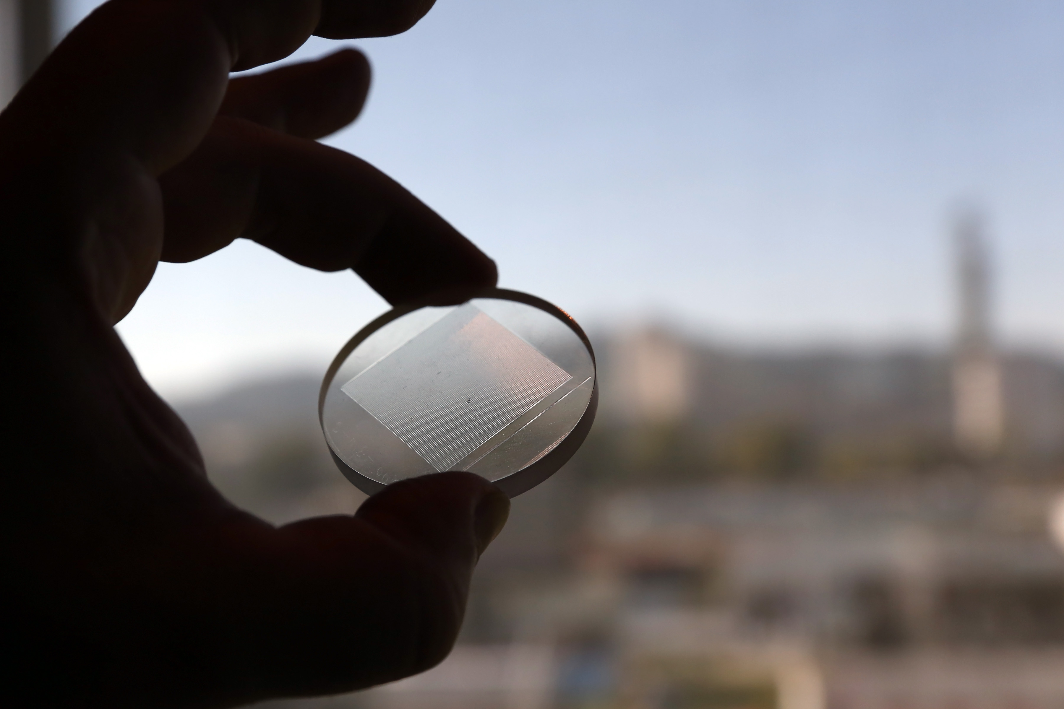 Lytro-Light-field camera at Ars Electronica 2013 at Brucknerhaus, Linz, Upper Austria.